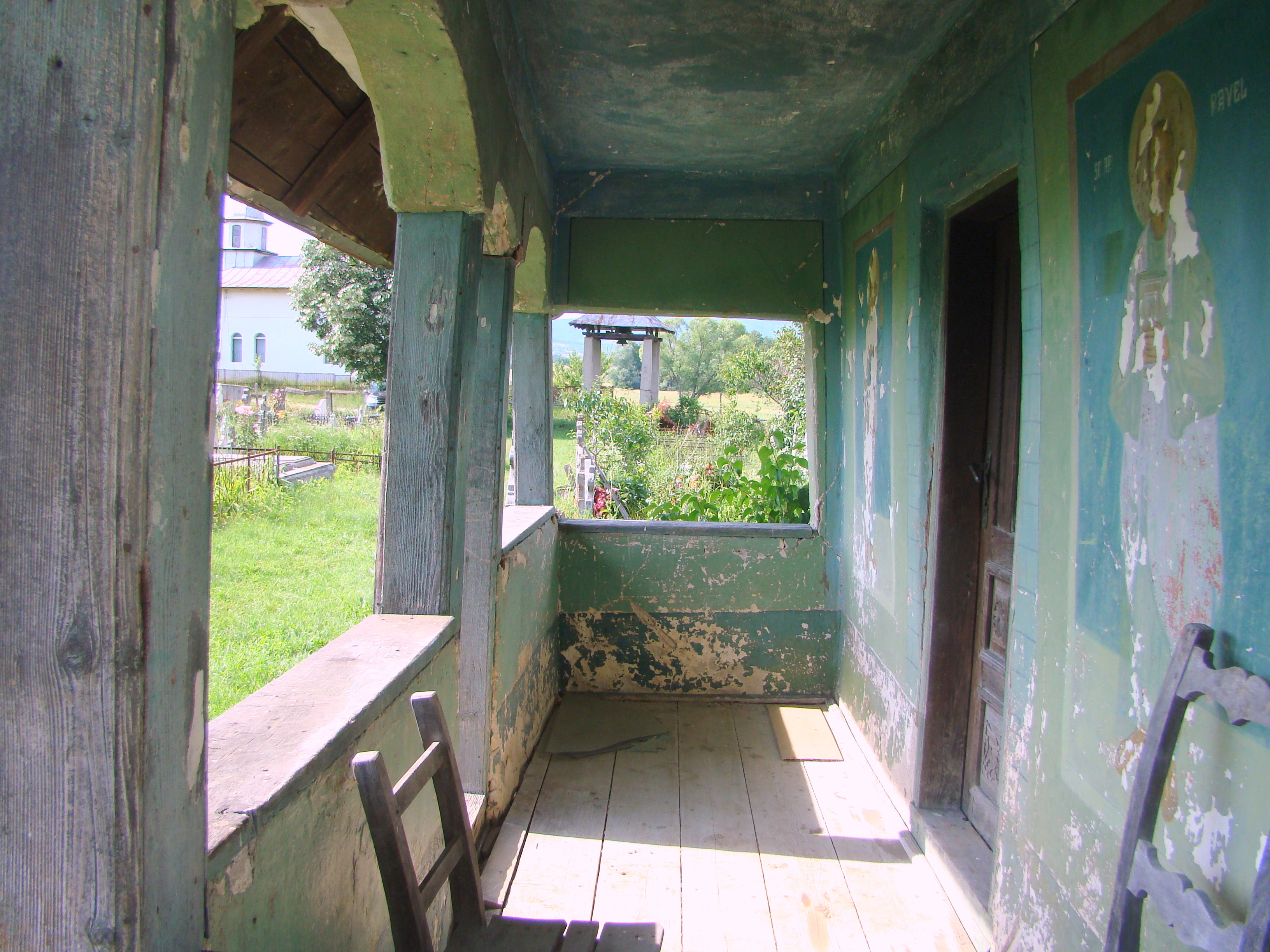 Wooden church in Mușetești-Sârbești, Gorj county, Romania